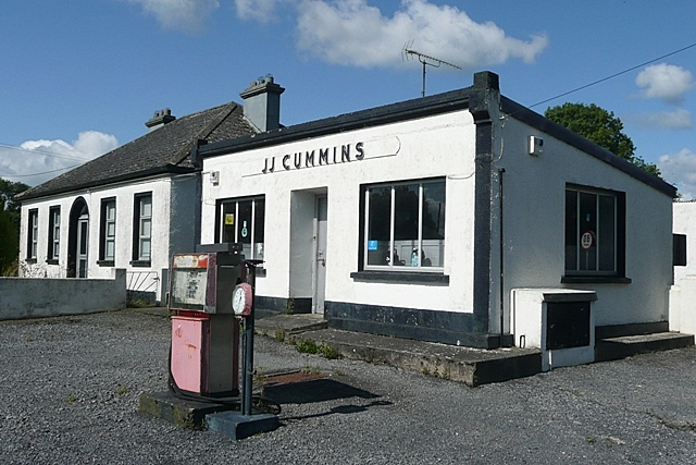 Garage at Curraghboy The petrol pump is certainly not used any more, and it looks as though the garage may be heading the same way.